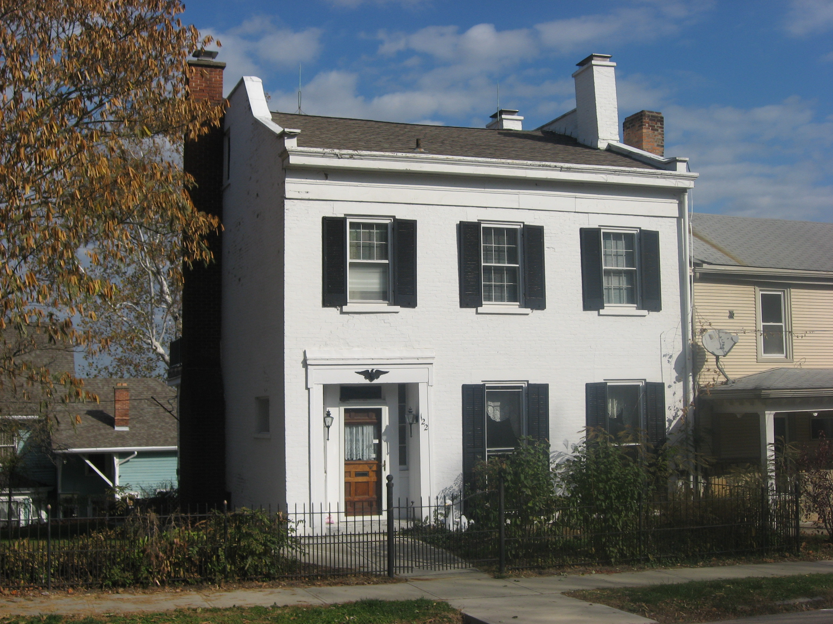 Front and western side of the Levi Stevens House, located at 122 Fifth Street in Aurora, Indiana, United States. Built in 1849, it is listed on the National Register of Historic Places, and it is part of a Register-listed historic district, the Downtown Aurora Historic District.